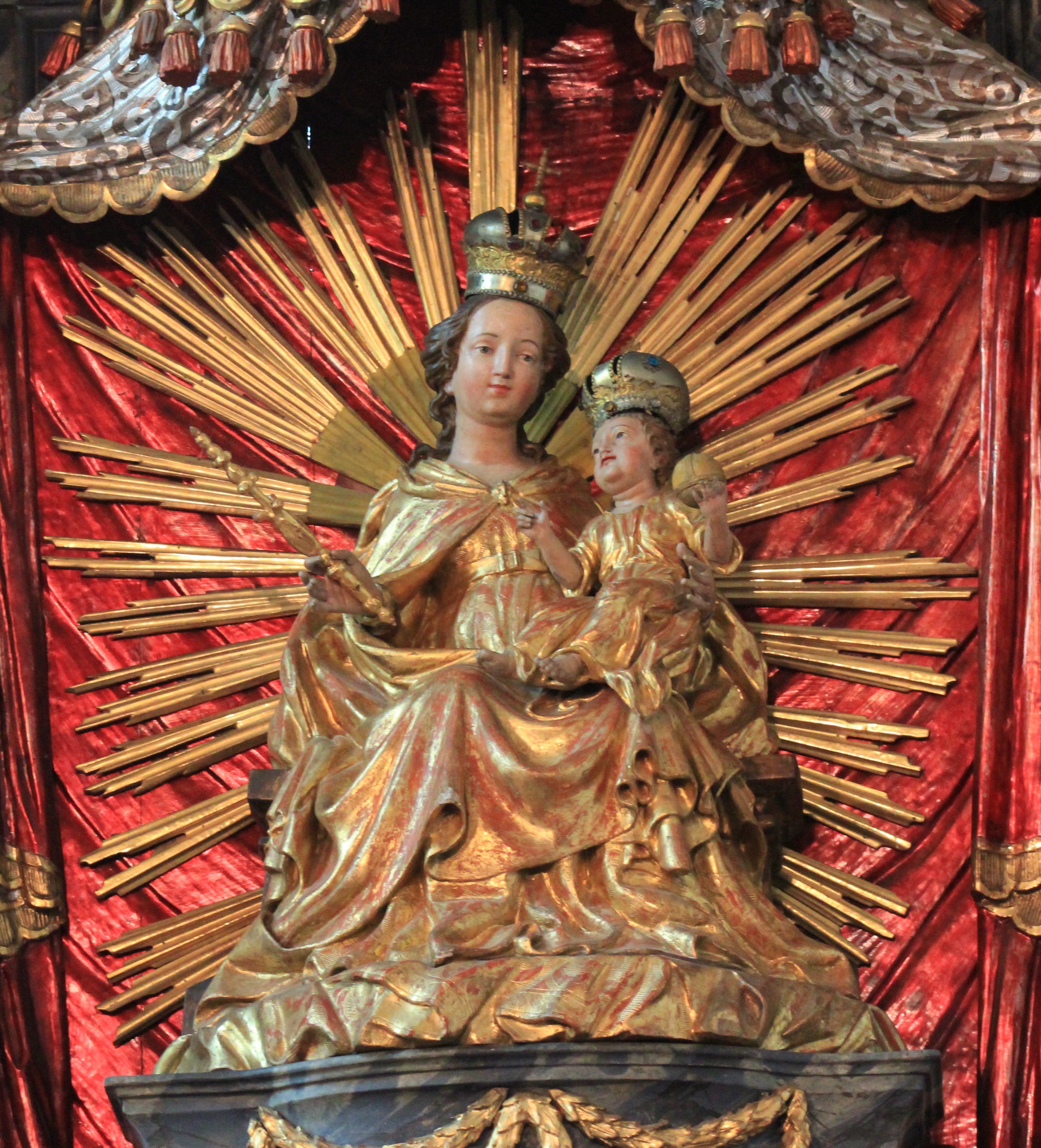 Heiligblutkirche in Friesach - Altar - Madonna